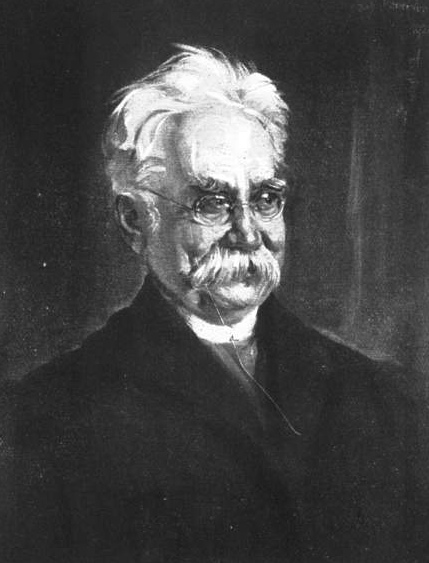 Ernst Mummenhoff. Black and white reproduction of a photo of a portrait by painter Felix Mayer-Felice (*1876, † 1929). Now in the public domain because of +70 years post mortem auctoris) The portrait is in the possesion of the city of Nürnberg.